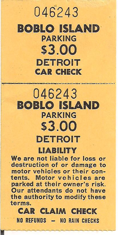 This is a parking stub from the defunct Boblo Island Amusement park in 1988